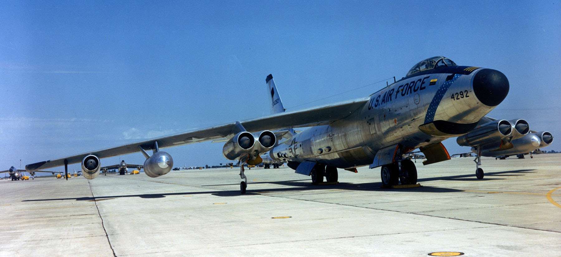 U.S. Air Force Boeing RB-47H Stratojets flew missions early in the air campaign against North Vietnam. The type was replaced by the RC-135. The RB-47H 53-4292 in front was retired to the MASDC on 20 October 1965.